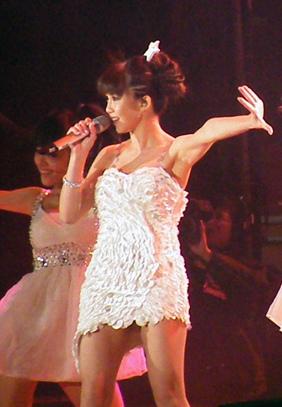 Yao Yao performed in Taipei New Year's Eve Party 2011.